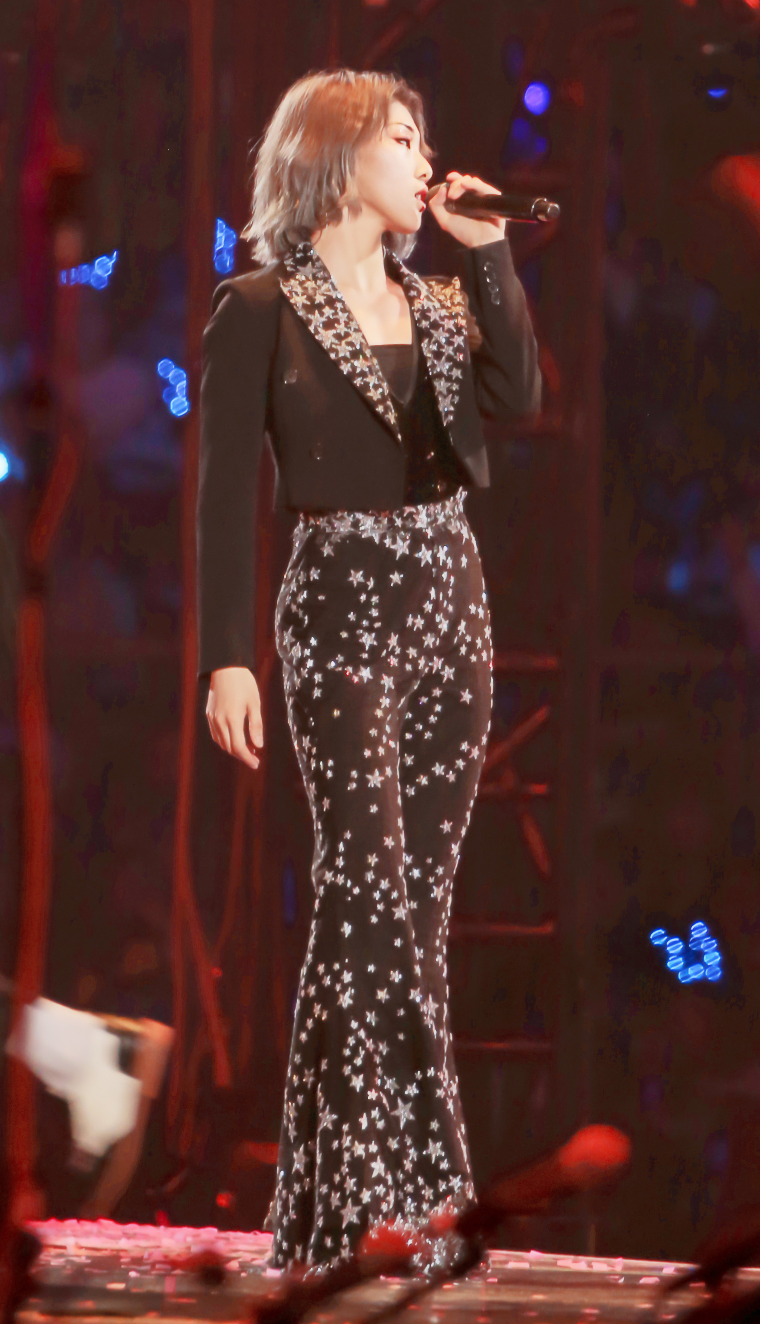 The picture is when Yamy was performing the song "Call Me", which is originated by herself, at the "2019 Rocket Girls 101 Flying Concert -FLOWER · Guangzhou Station" at Guangzhou Baoneng International Sports Arena on March 30, 2019.